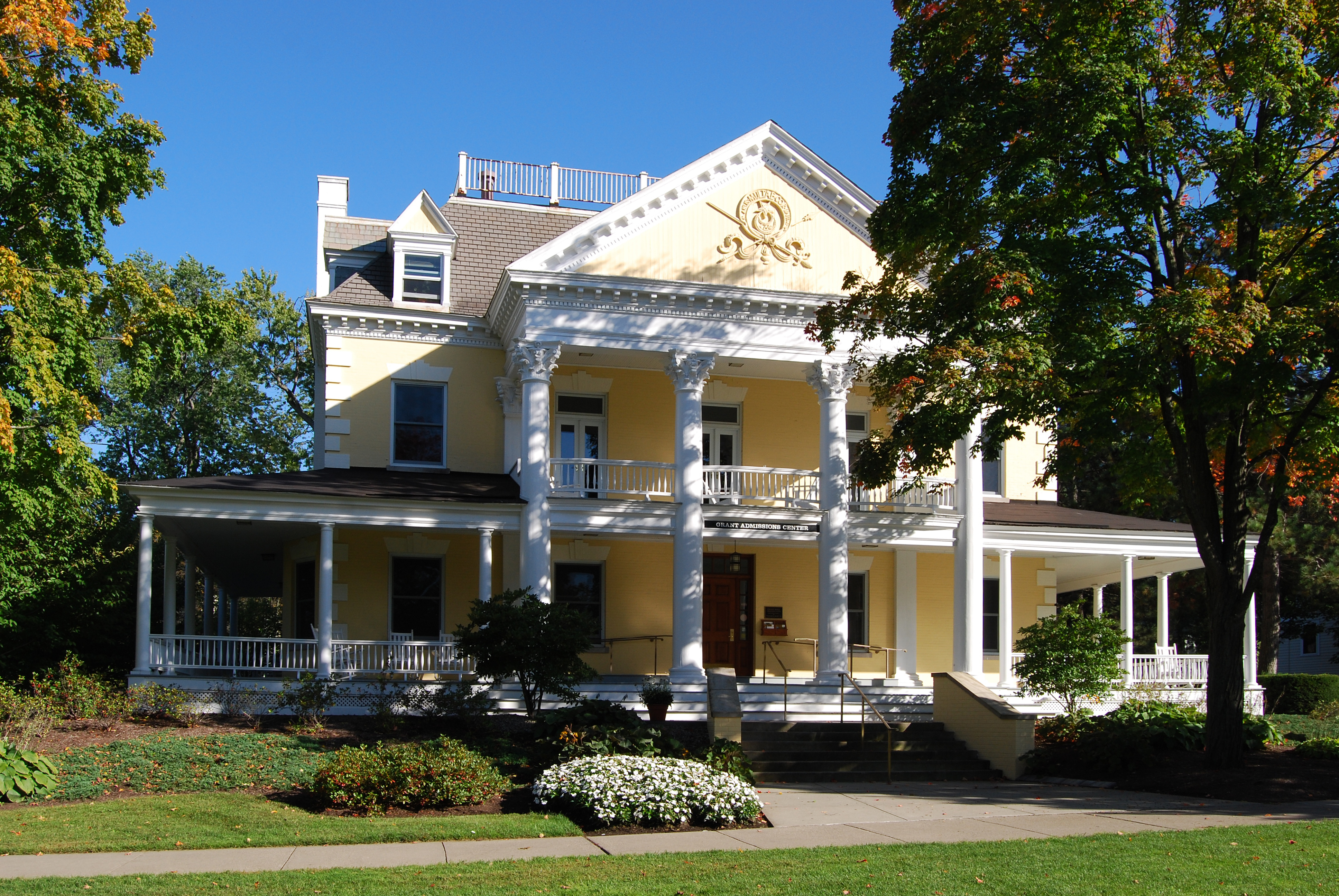 Grant Admissions Center, on the campus of Union College in Schenectady, New York, United States, former chapter house of the Alpha Delta Phi